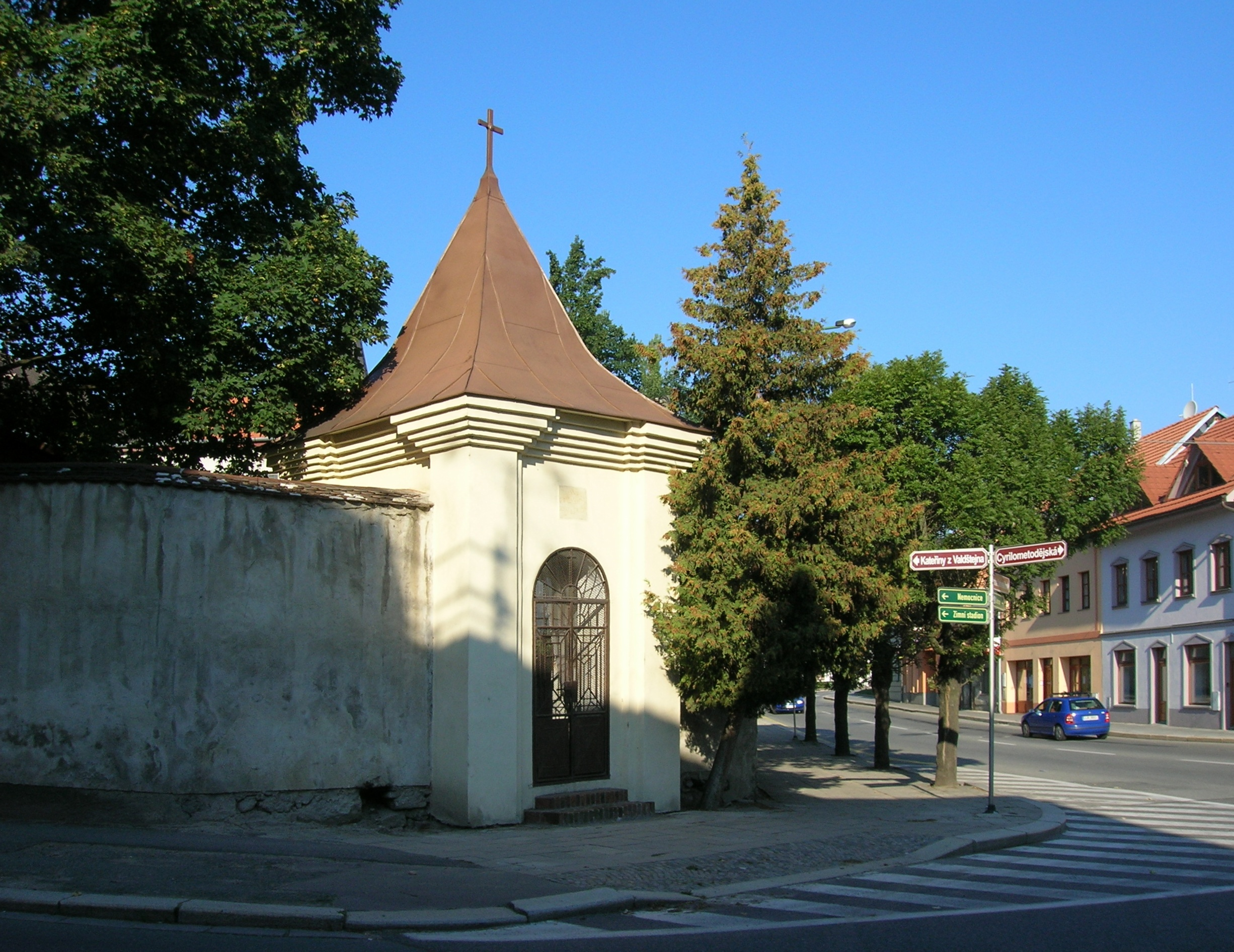 Třebíč-Jejkov. Sts Peter and Paul Chapel